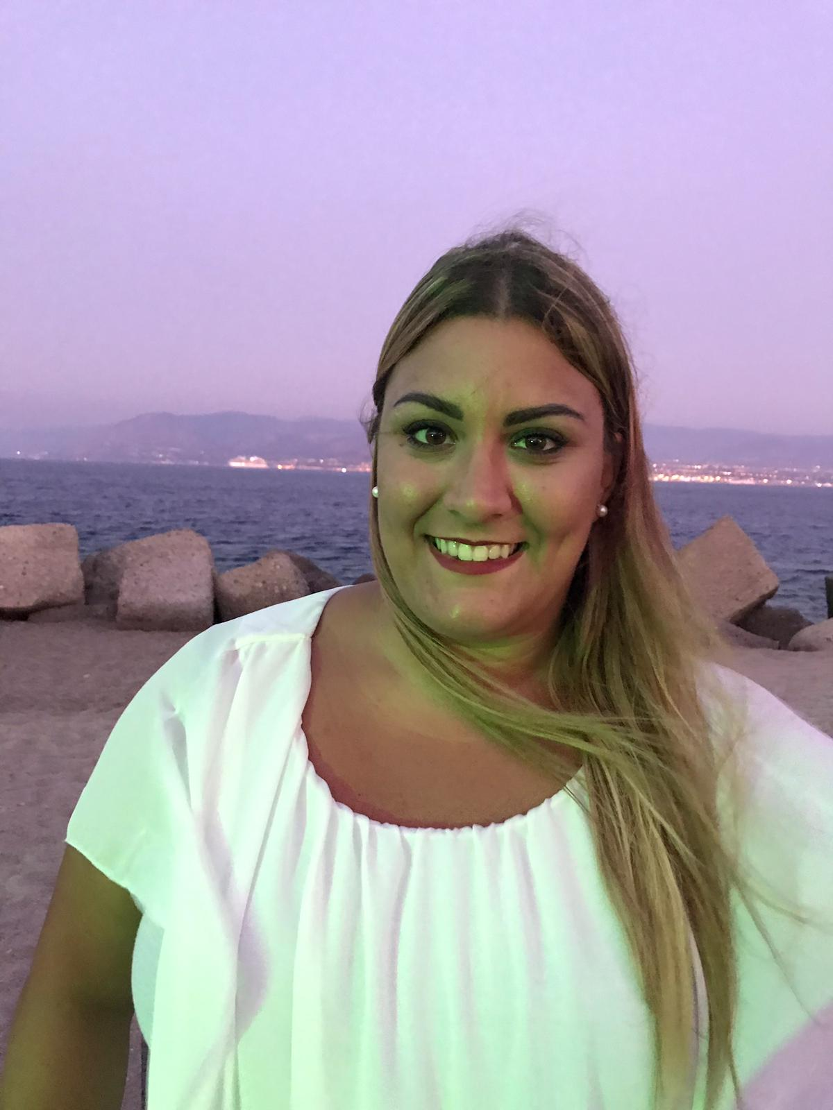 Italian judoka Carolina Costa shooted in Messina in 2019